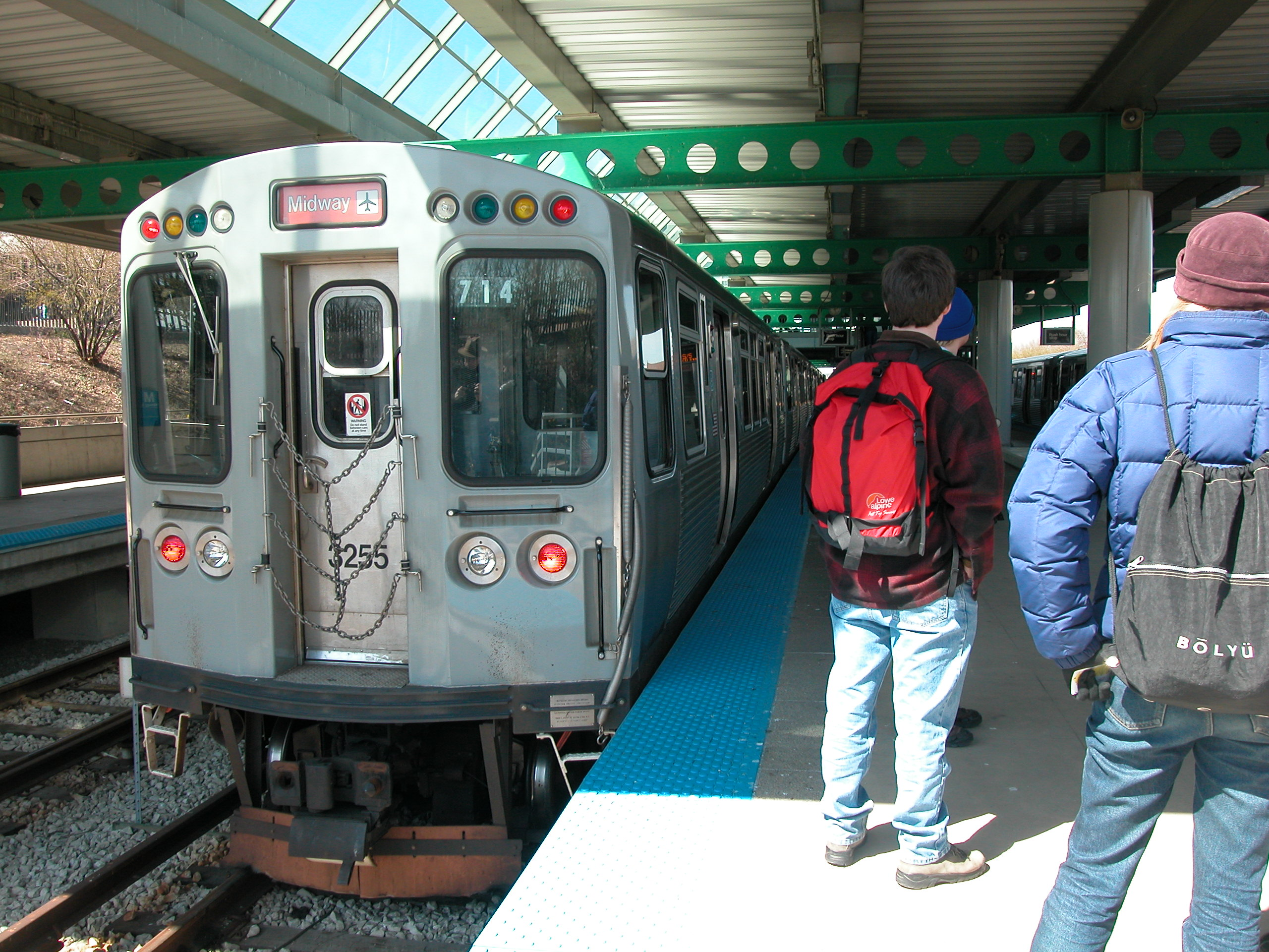 20040405 32 CTA Orange Line Midway L station